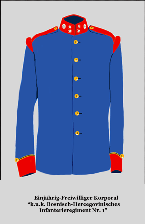 One-year-volunteer Corporal in the 1st Regiment of the Austria-Hungarian Bosnian-Hercegowian Infantry Regiment